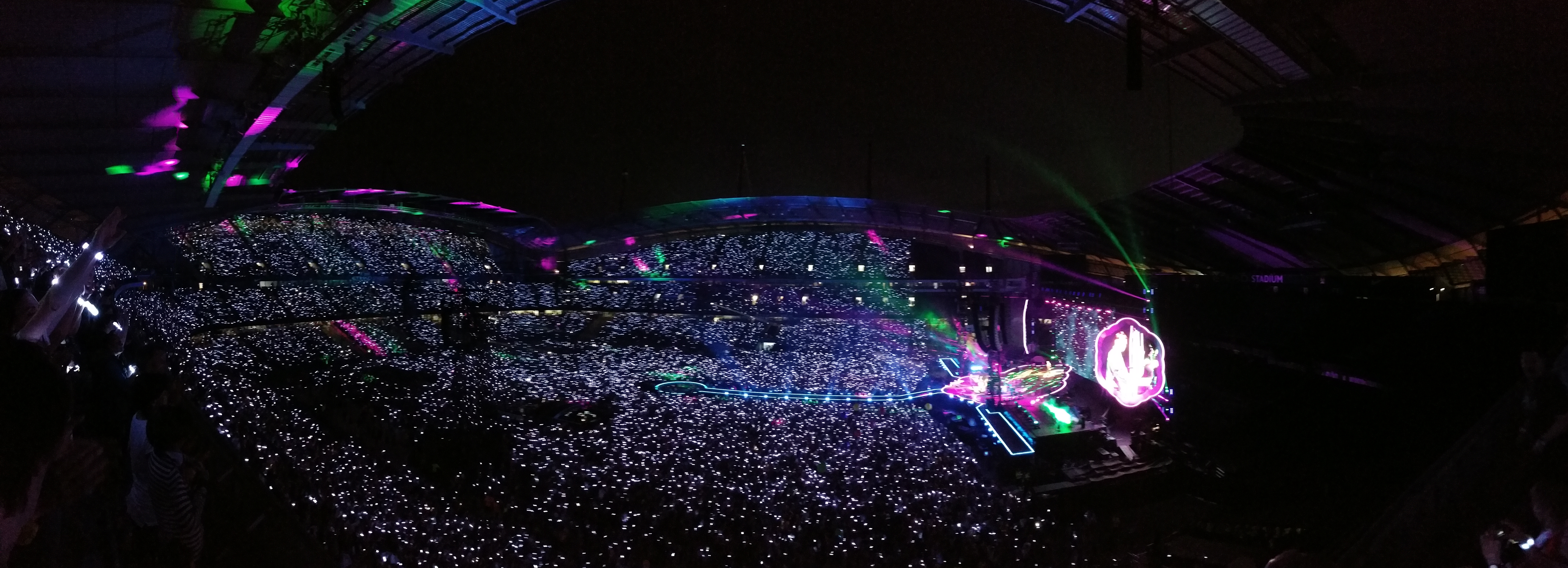 A panoramic view of Etihad Stadium during Coldplay's A Head Full of Dreams Tour.